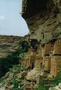 Description Rotswoningen Klif van Bandiagara DateOctober 1999SourceOwn workAuthorEls SlotsPermission (Reusing this file) GFDL eigen werk Rotswoningen Klif van Bandiagara